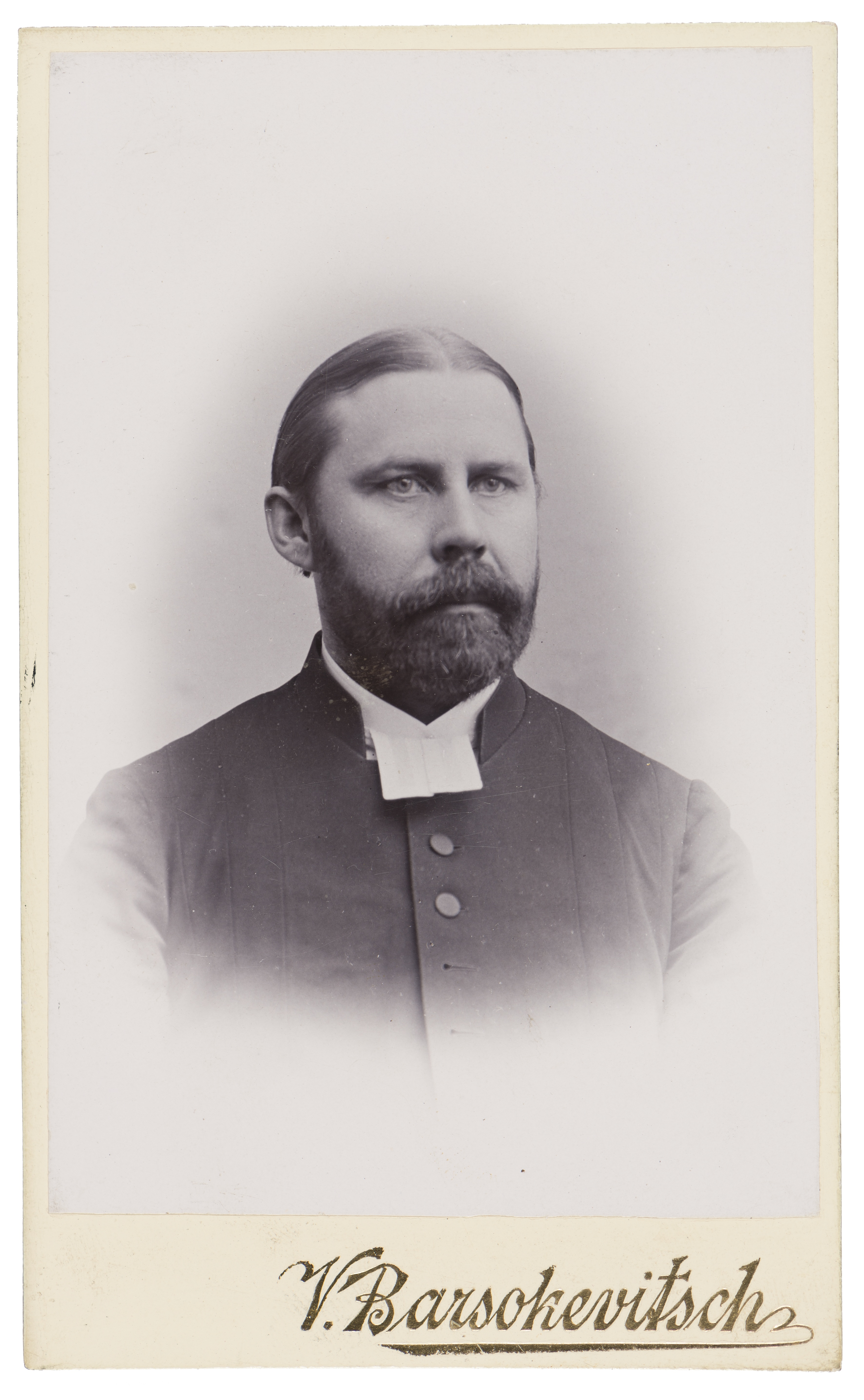 Photograph of the Finnish priest and writer Eero Hyvärinen (1859–1931).